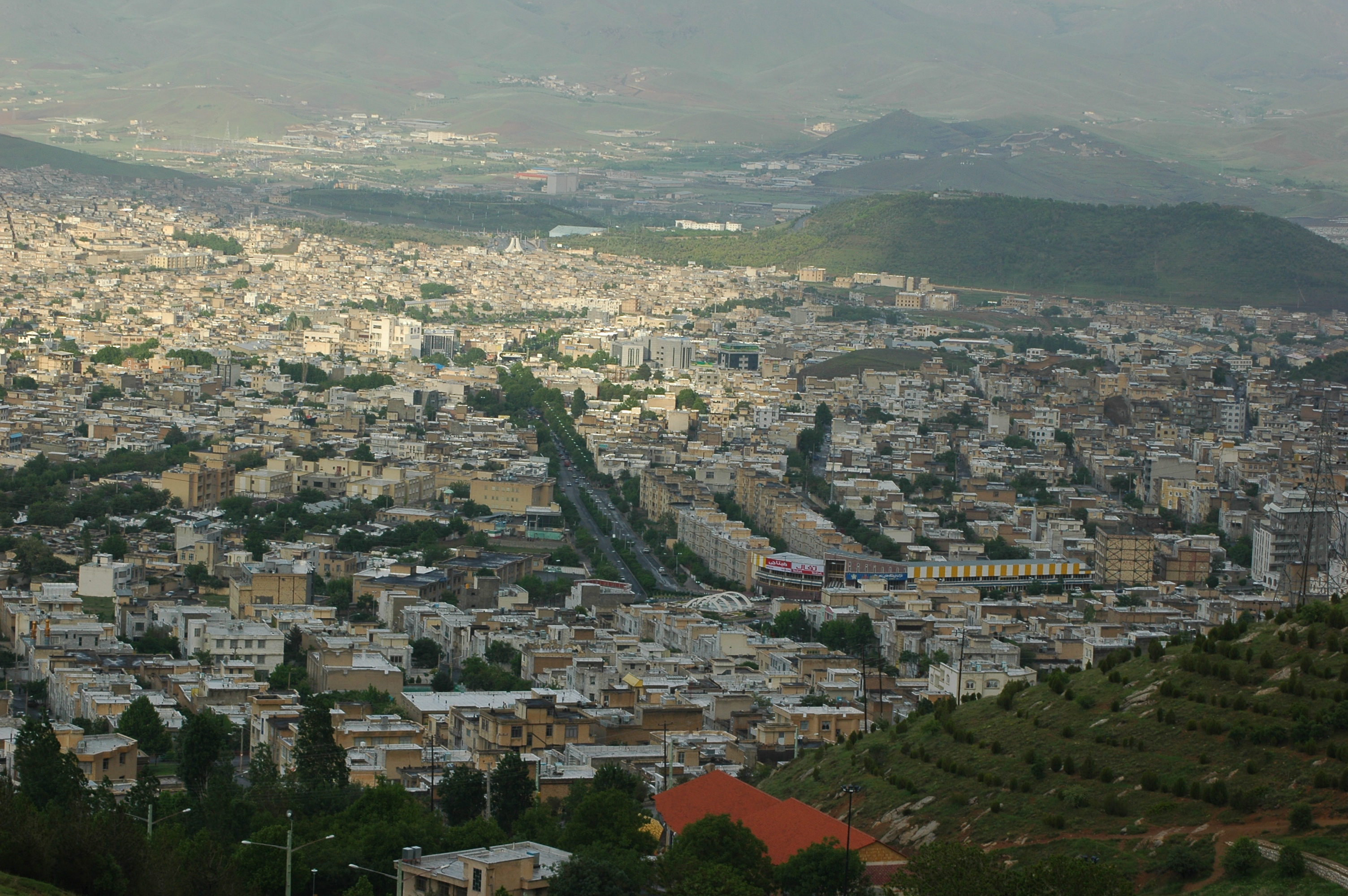 This photo is free to use.